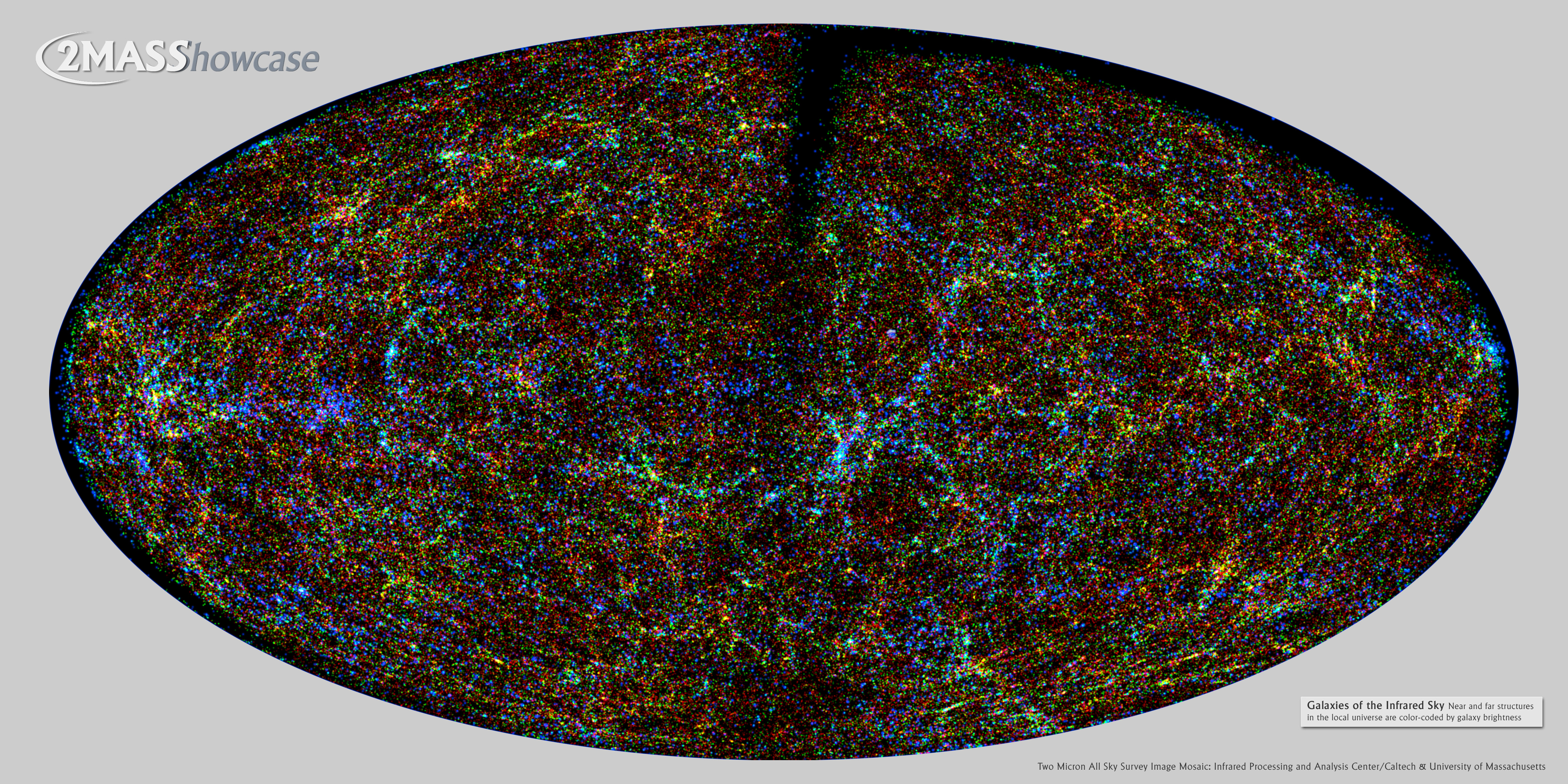 This panoramic view of the entire sky reveals the distribution of galaxies beyond our Milky Way galaxy, which astronomers call extended sources, as observed by Two Micron All-Sky Survey. The image is constructed from a database of over 1.6 million galaxies listed in the survey's Extended Source Catalog; more than half of the galaxies have never before been catalogued. The image is a representation of the relative brightnesses of these million-plus galaxies, all observed at a wavelength of 2.2 microns. The brightest and nearest galaxies are represented in blue, and the faintest, most distant ones are in red. This color scheme gives insights into the three dimensional large-scale structure of the nearby universe with the brightest, closest clusters and superclusters showing up as the blue and bluish-white features. The dark band in this image shows the area of the sky where our Milky Way galaxy blocks our view of distant objects, which, in this projection, lies predominantly along the edges of the image.